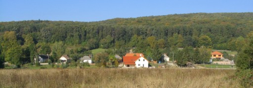 Porva, Pálihálás